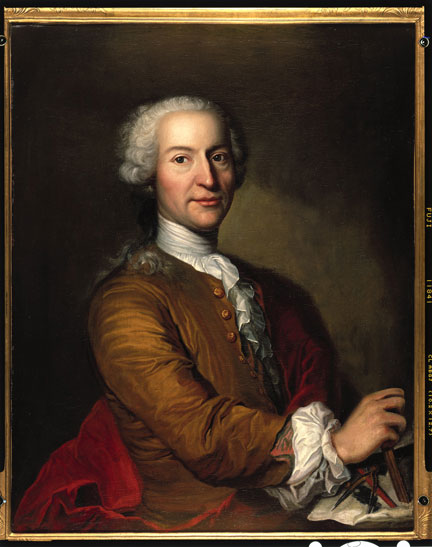 Gabriel Delagrange (1715-1794), Swiss architect